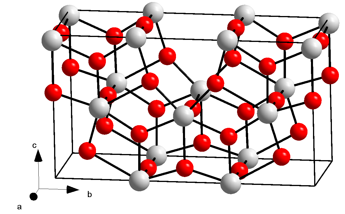 Crystal structure of Triuranium octoxide